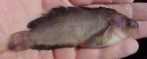 Juvenile prowfish (Zaprora silenus)